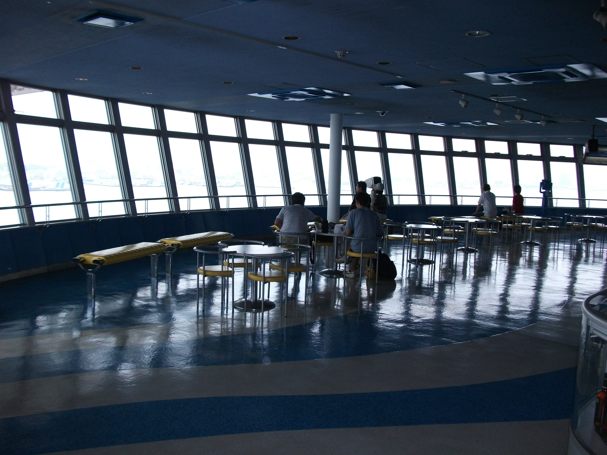 Yokohama-Skywalk, Lounge (Yokohama, Japan)